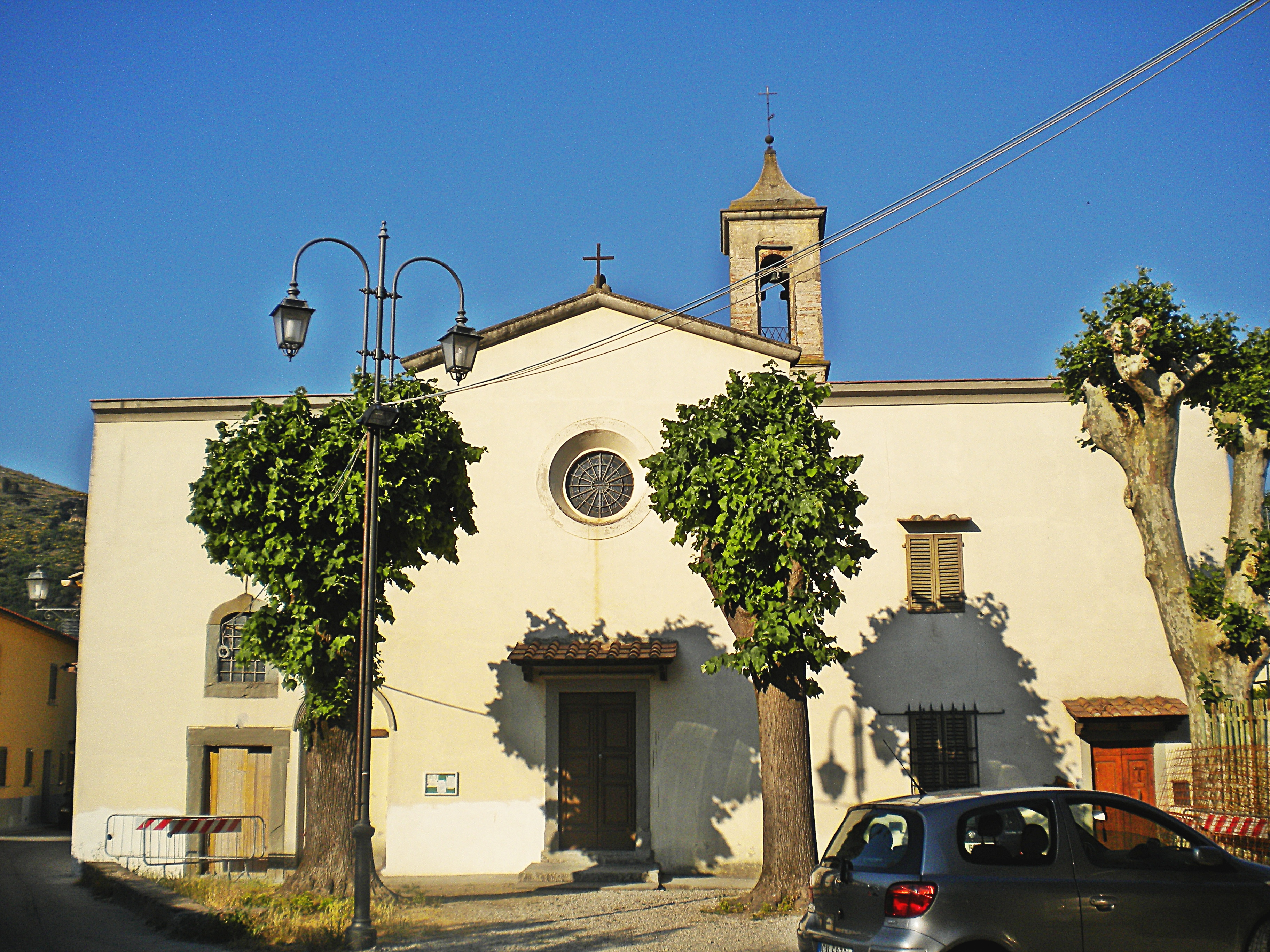 facade